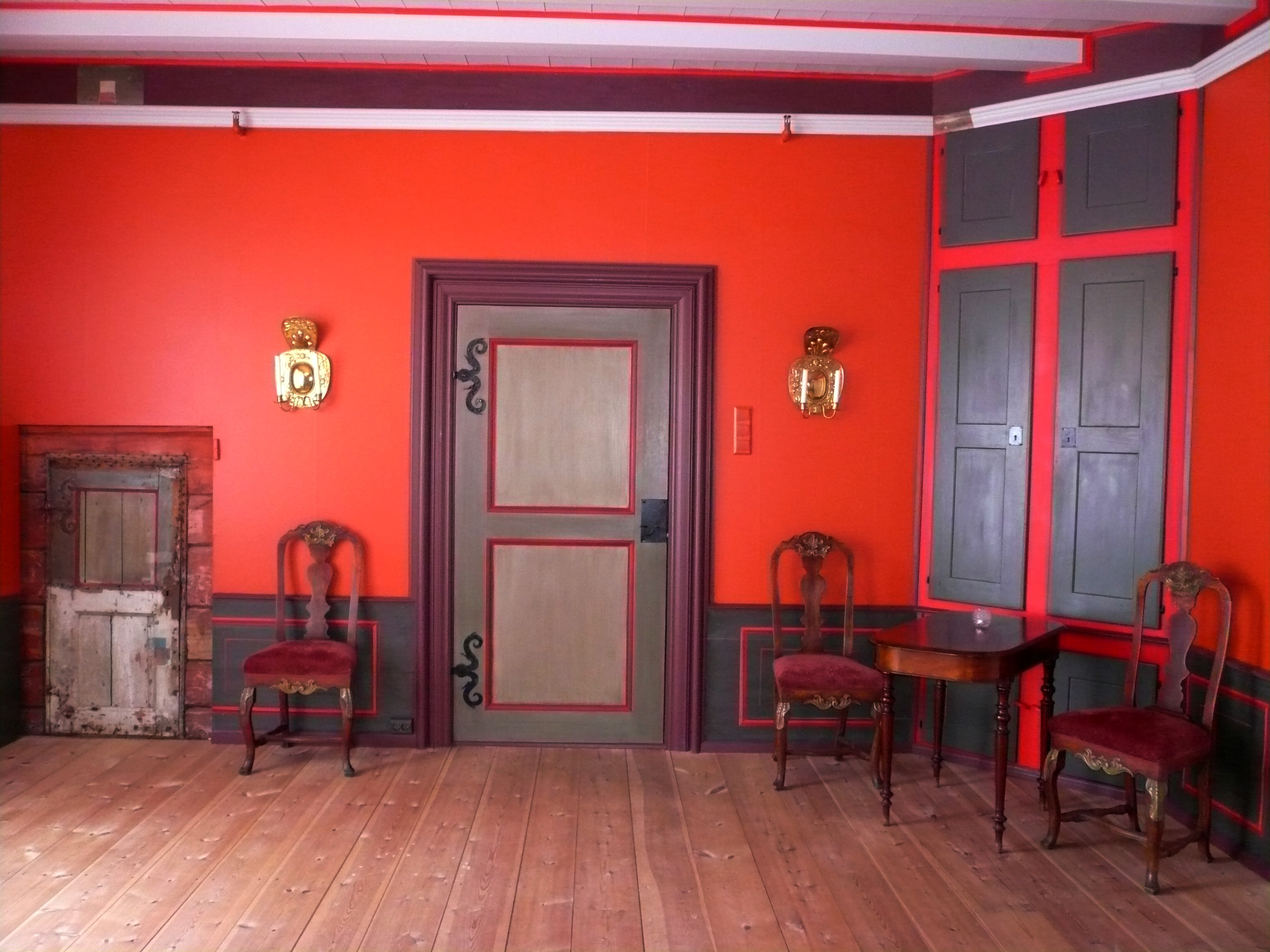 Stend hovedgård, Bergen, Norway.